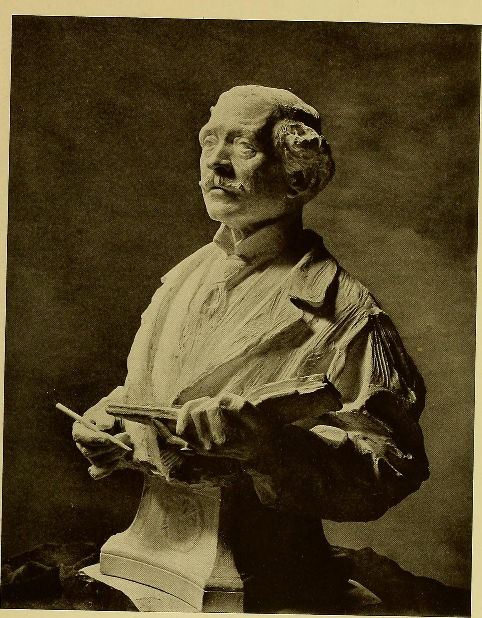 Title: The work of Emil Fuchs; illustrating some of his representative paintings, sculpture, medals and studies. Issued on the occasion of an exhibition of his works under the auspices of Messrs. Cartier, February 7th to March 5th,1921. New York city Year: 1921 (1920s) Authors: Fuchs, Emil, 1866-1929 Cartier, New York Subjects: Art Publisher: (New York, Bartlett Orr press) Text Appearing Before Image: Sir Johnston Forbes-Robertson 40 Text Appearing After Image: Sir David Murray MEMBER OF THE ROYAL ACADEMY OF ARTS —ENGLAND BRONZE 41